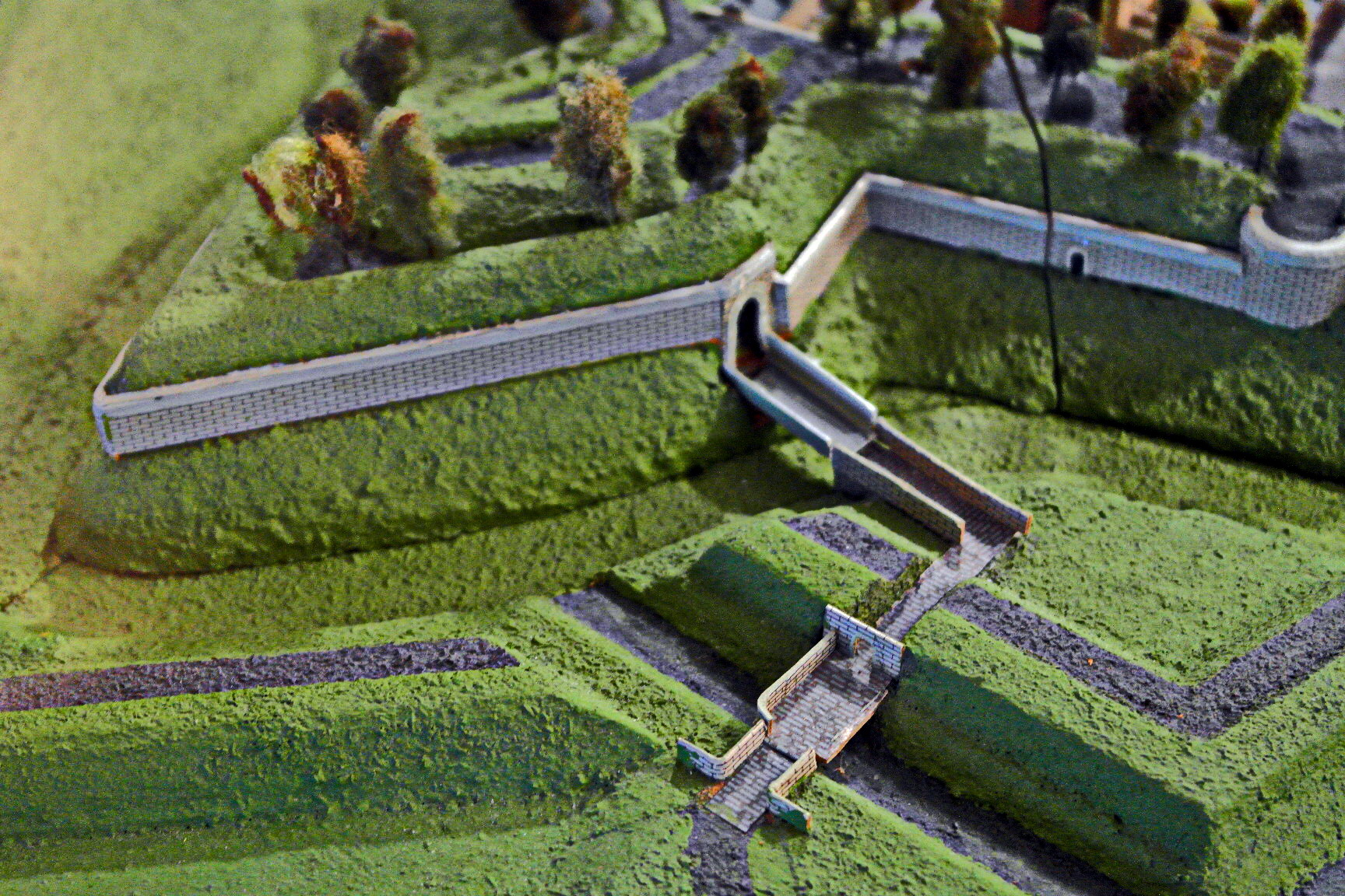 Detail of the copy of the French Maquette of Maastricht on display in Centre Céramique, Maastricht, the Netherlands. The copy was made in 1974-1982, based on the mid-18th-century scale model made for King Louis XV of France. This section shows the western city wall south of Brusselsepoort gate and bastion.